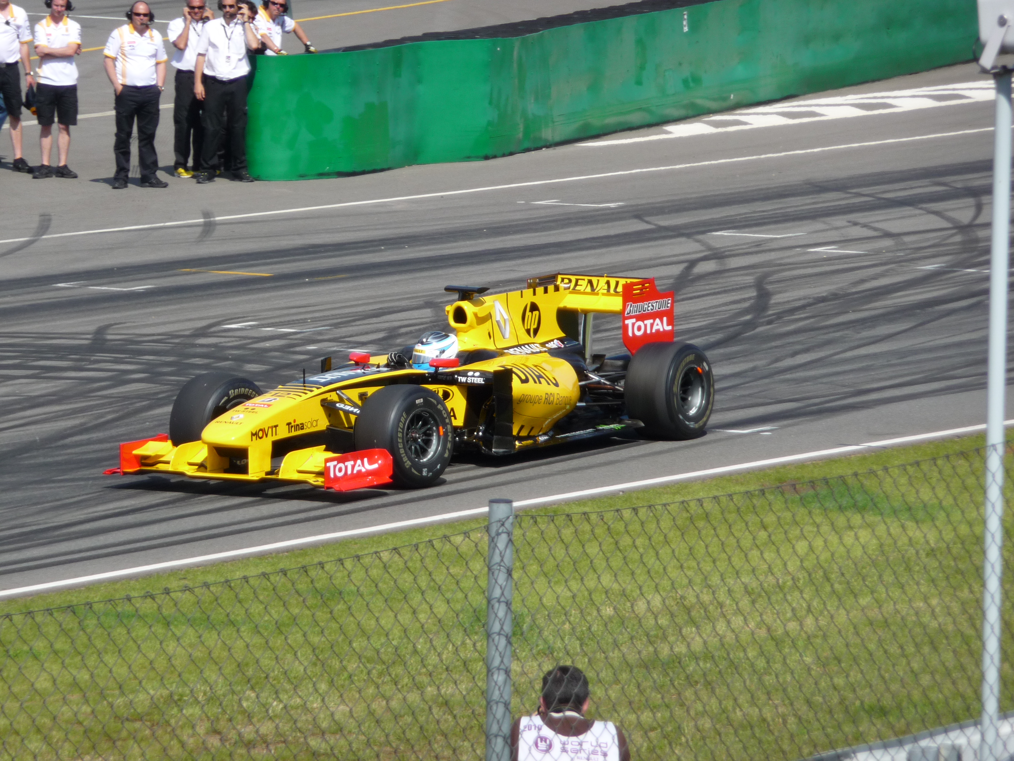 Jan Charouz, Formule 1 exhibition, 2010 Brno World Series by Renault